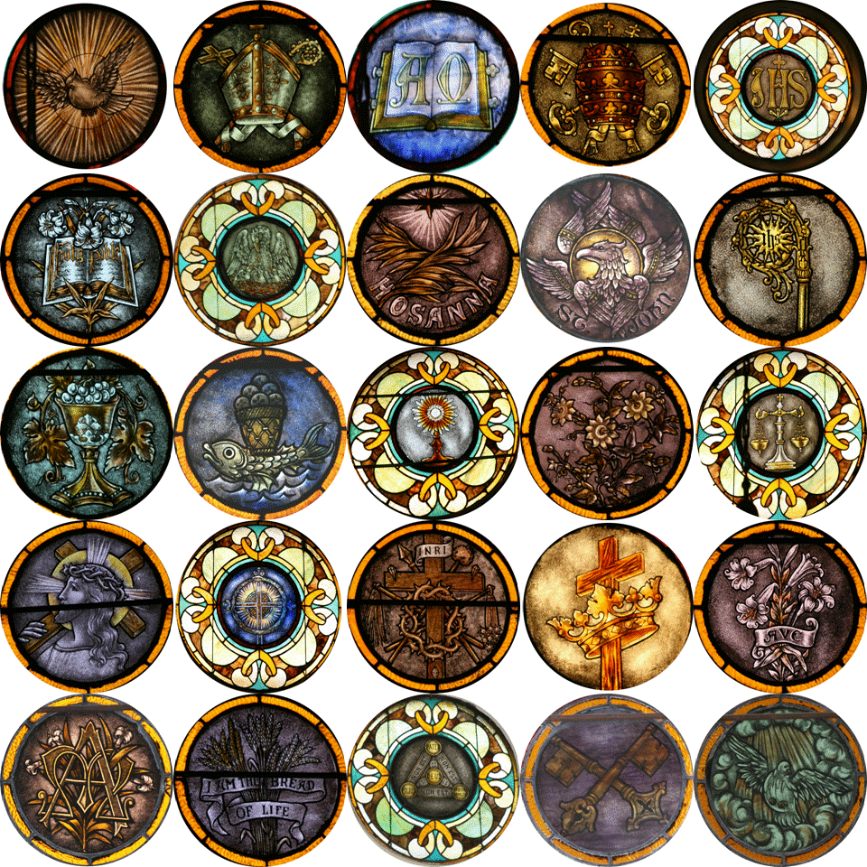 Hand painted Munich style inserts in stained glass panels at Nativity of Our Lord Church, Chicago